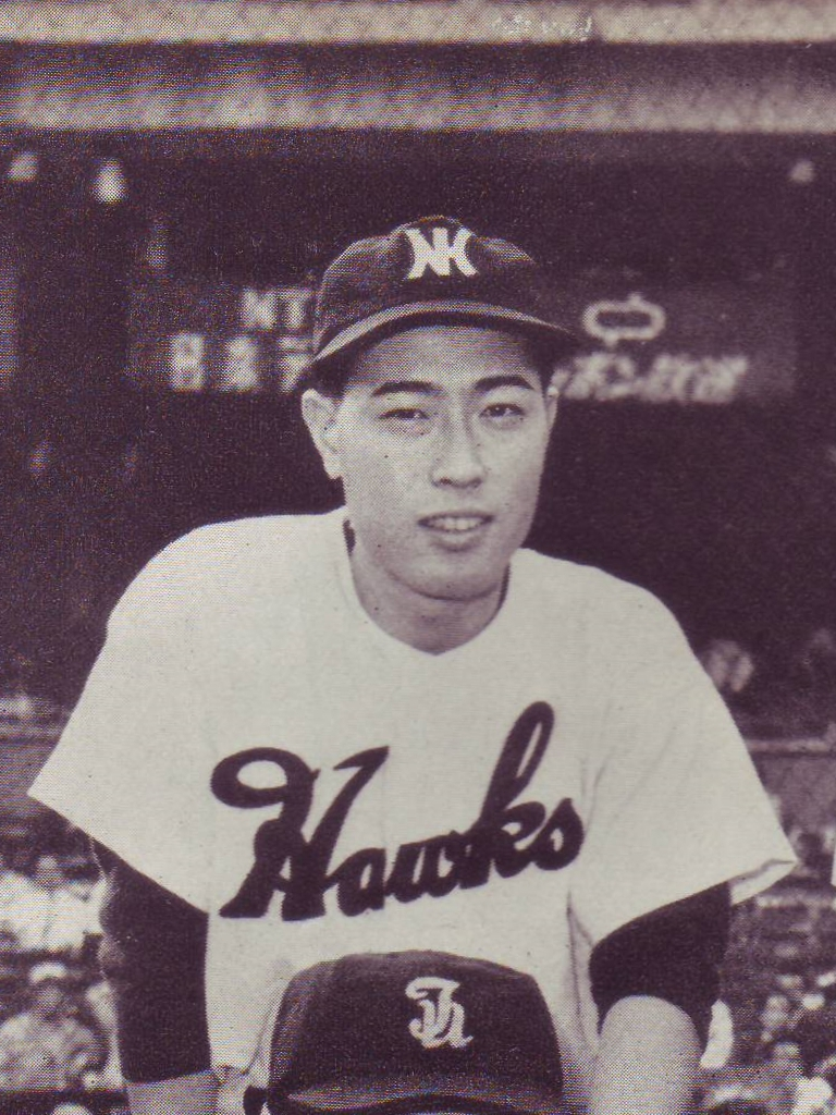 Keiji Osawa (Nankai Hawks. taken in 1956).